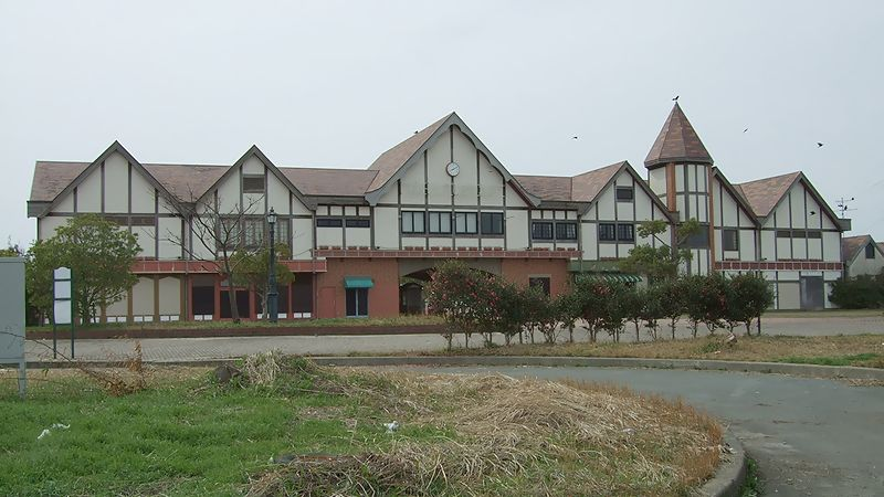 the ruins of Navelland